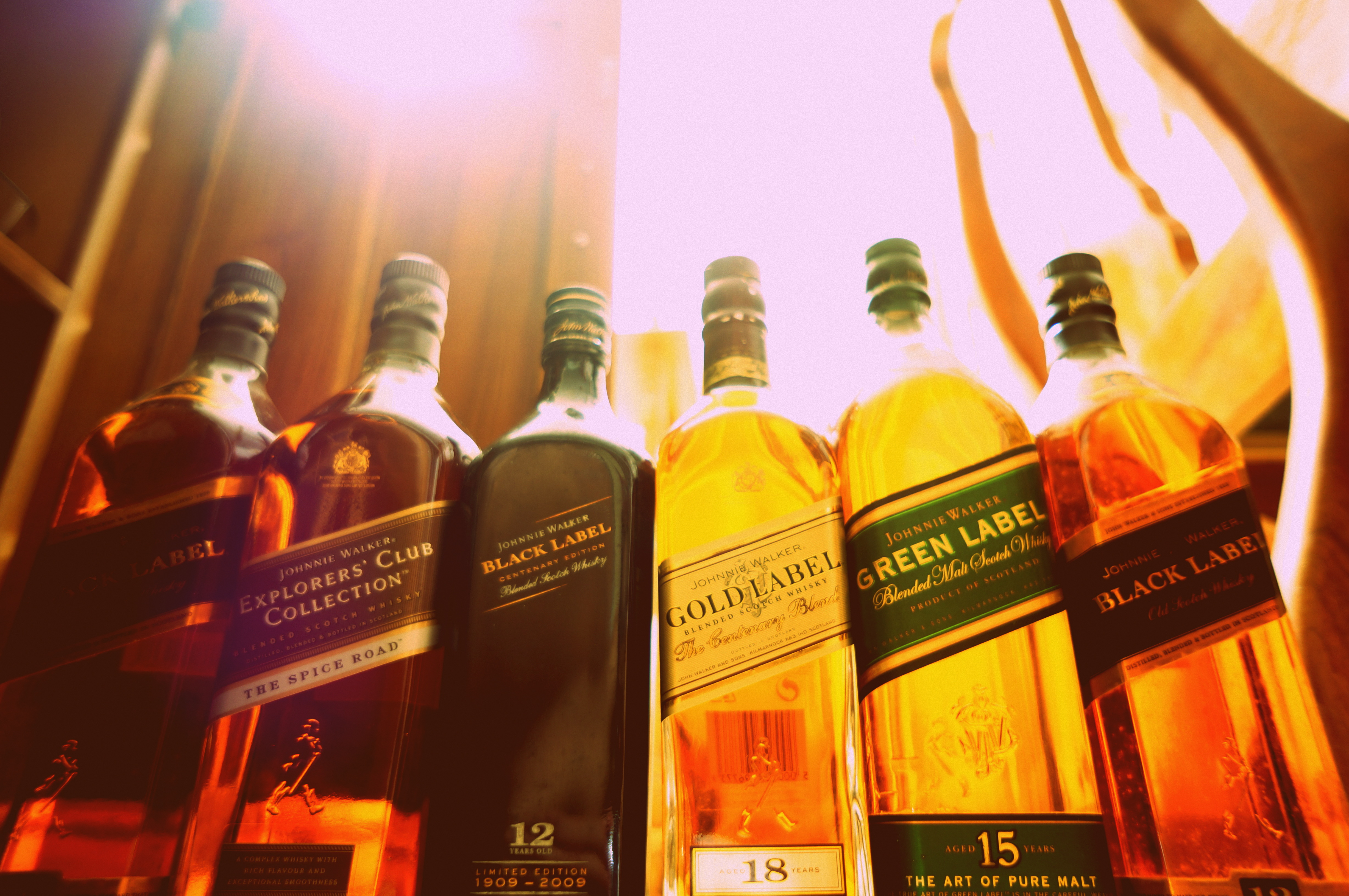 A line-up of various bottles of Johnnie Walker Scotch Whisky. Black Label, Explorers Club Collection, Double Black, Green Label, Gold Label. More freely usable pictures related to spirits, beer, distilling etc.